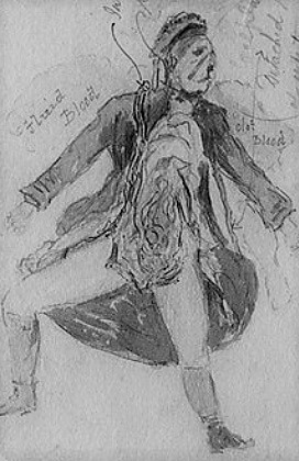 Police surgeon's drawing, 1888. The body of Jack the Ripper's fourth canonical victim, as discovered in Mitre Square, 30 September 1888.